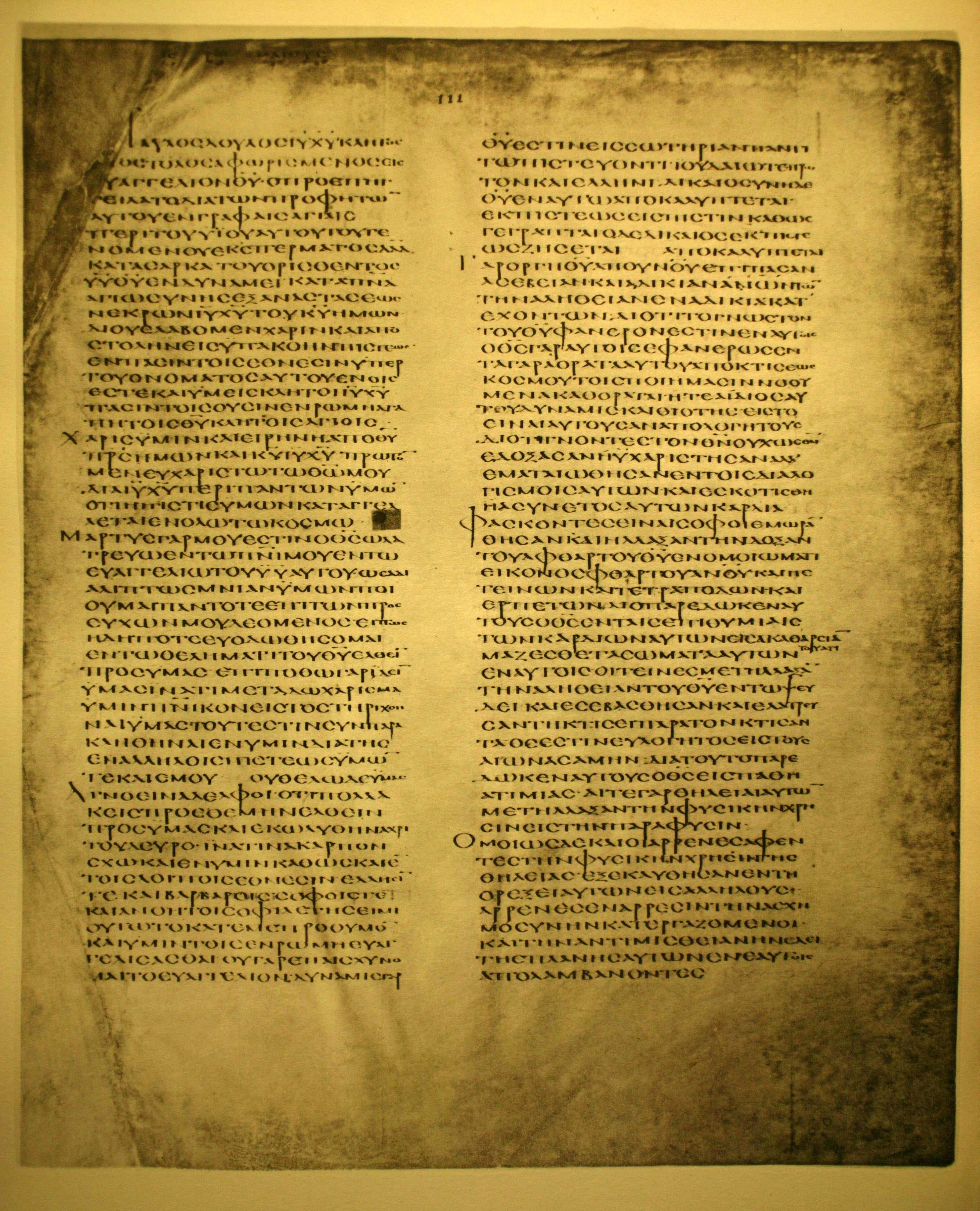 Codex Alexandrinus, manuscript of the New Testament 088a - Romans 1,1 ff